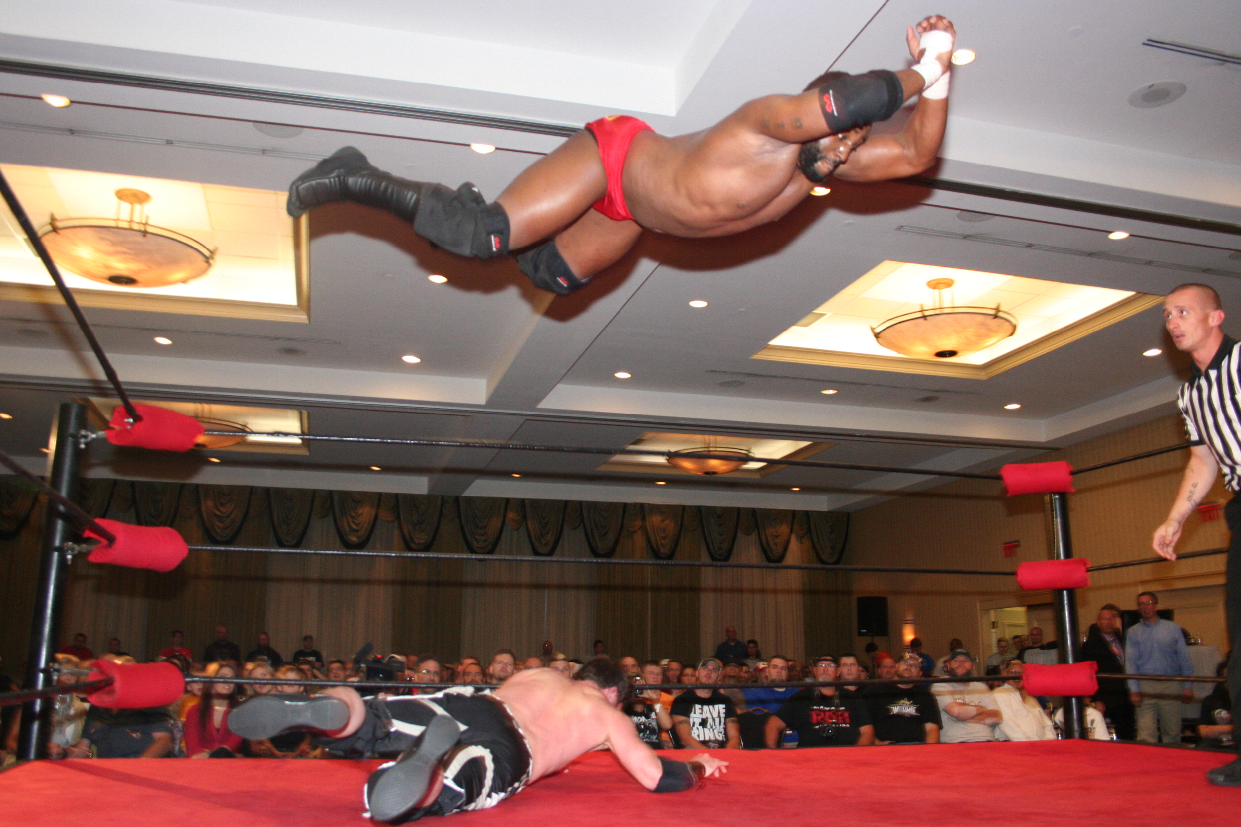 Cedric Alexander performing a frog splash on Chris Sabin in 2013